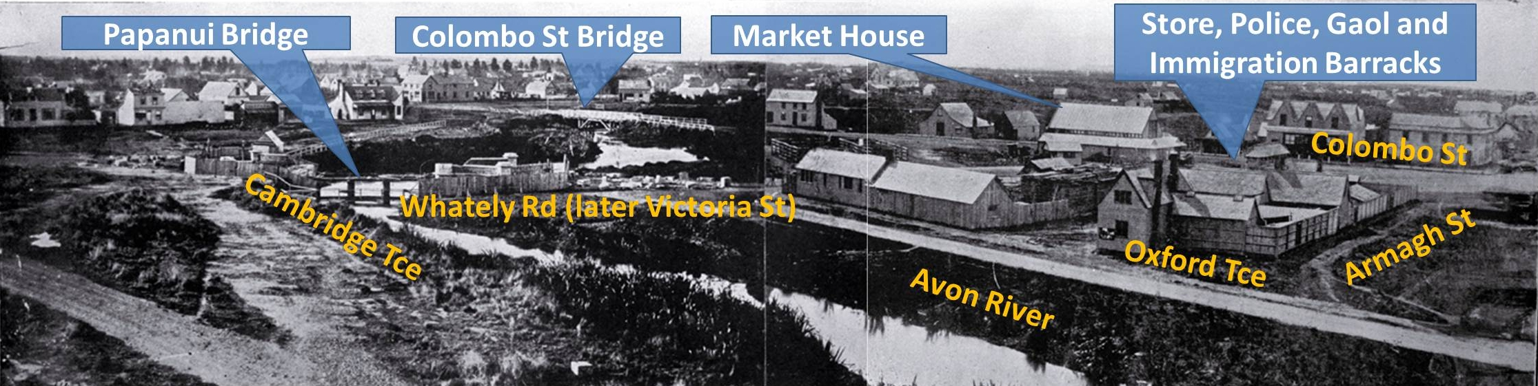 Photo 1 (left): shown in the background are Lummis, the painter, a skittle-alley, Ford's, the coopers, Royal Oak Hotel, Garrick Hotel, Colombo Street bridge. The iron and stone Victoria bridge is under construction.